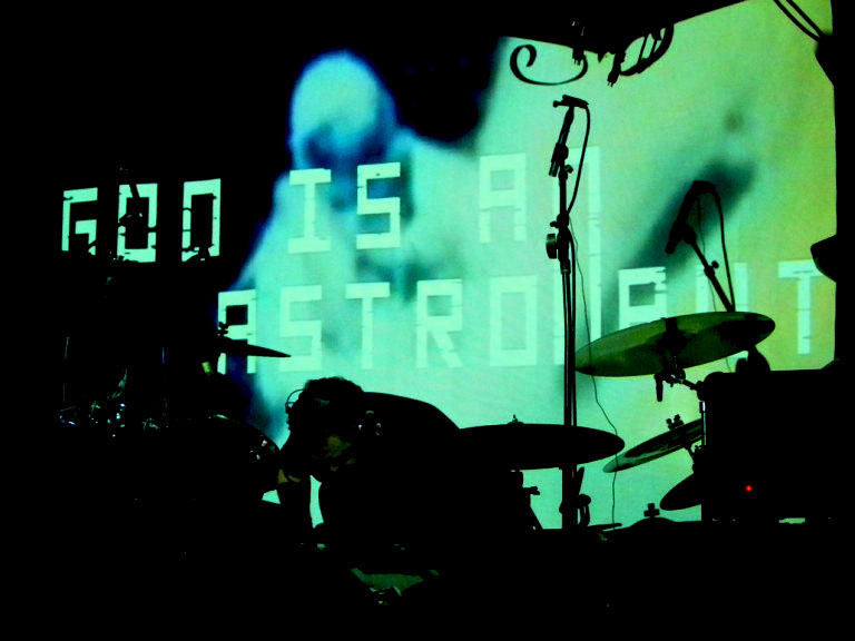 The band's logo projected onto a screen before a concert. Drummer Lloyd Hanney is in the foreground.